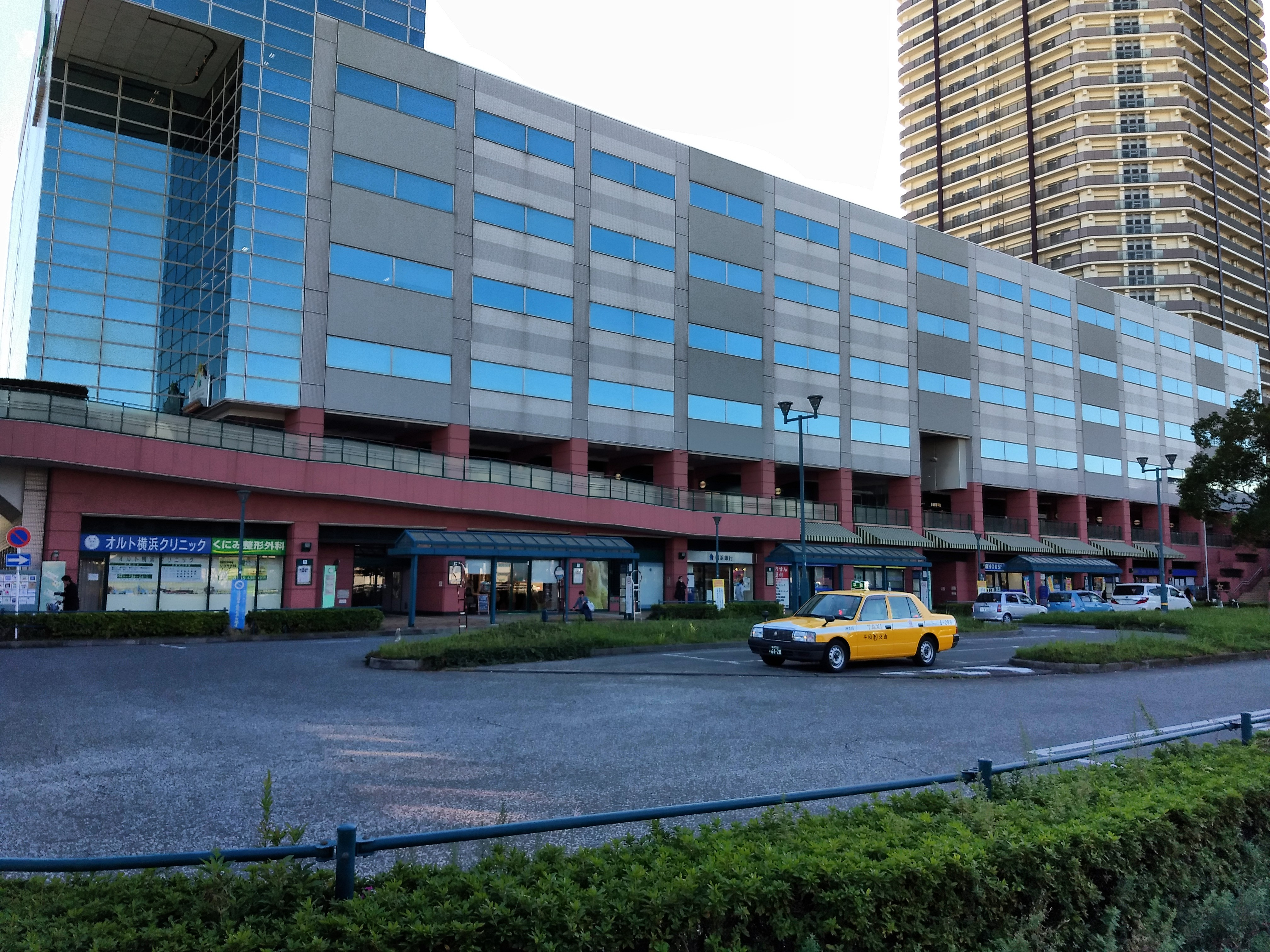 ALT Yokohama